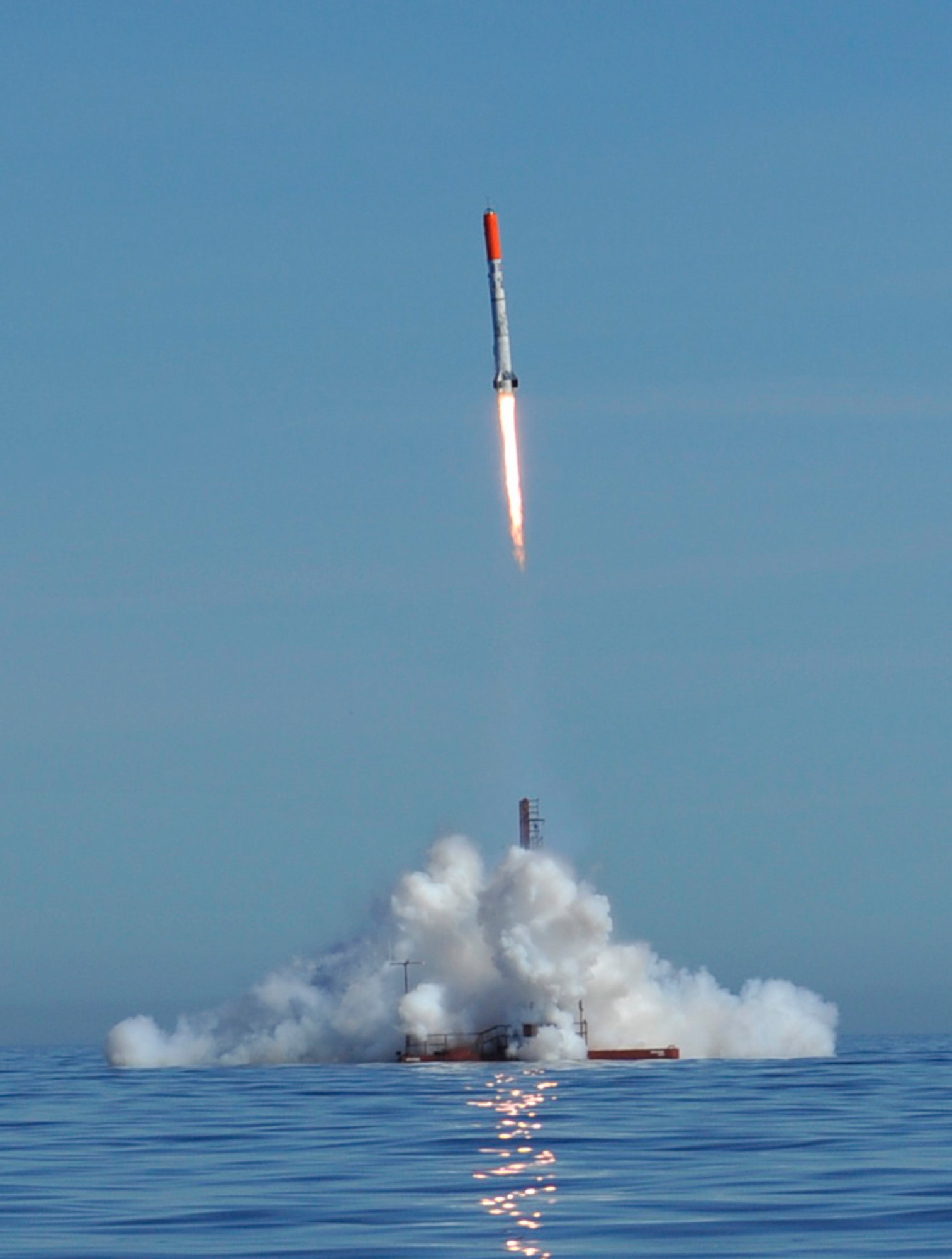 HEAT 1X - TYCHO BRAHE - second attempt successful